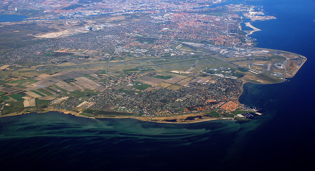 Photo from the air of Copenhagen Airport